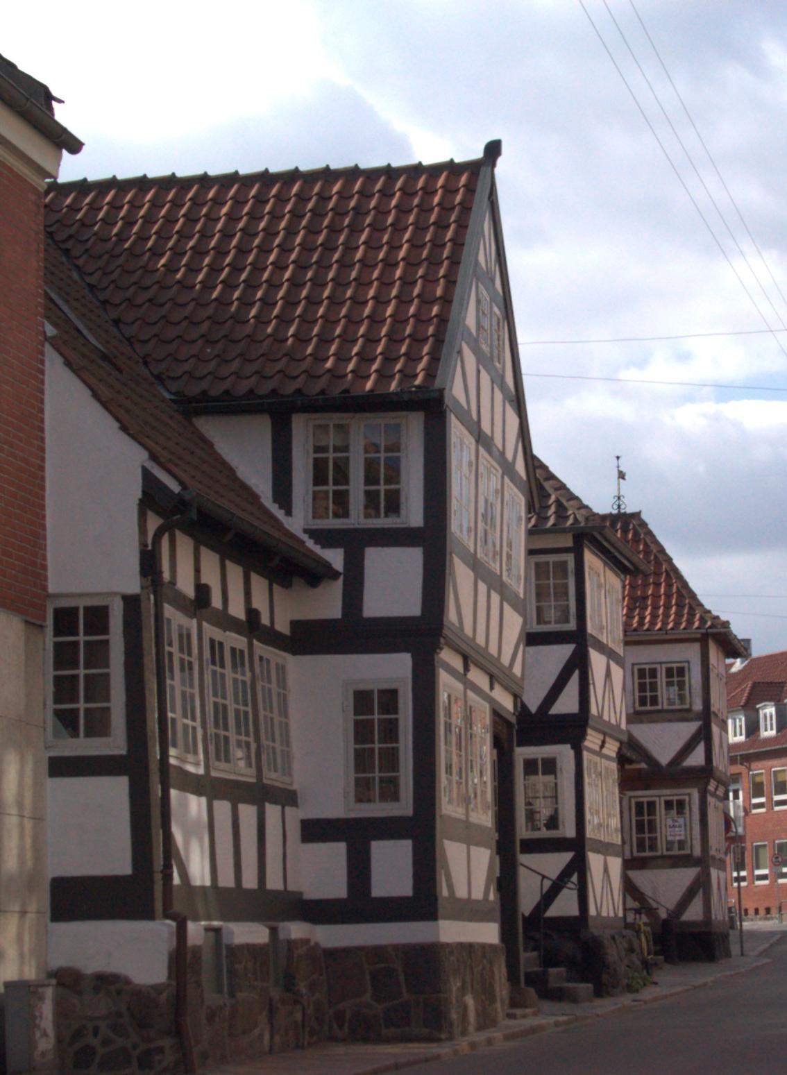 Bagergade 1, 3 and 5 in Svendborg. Listed buildings